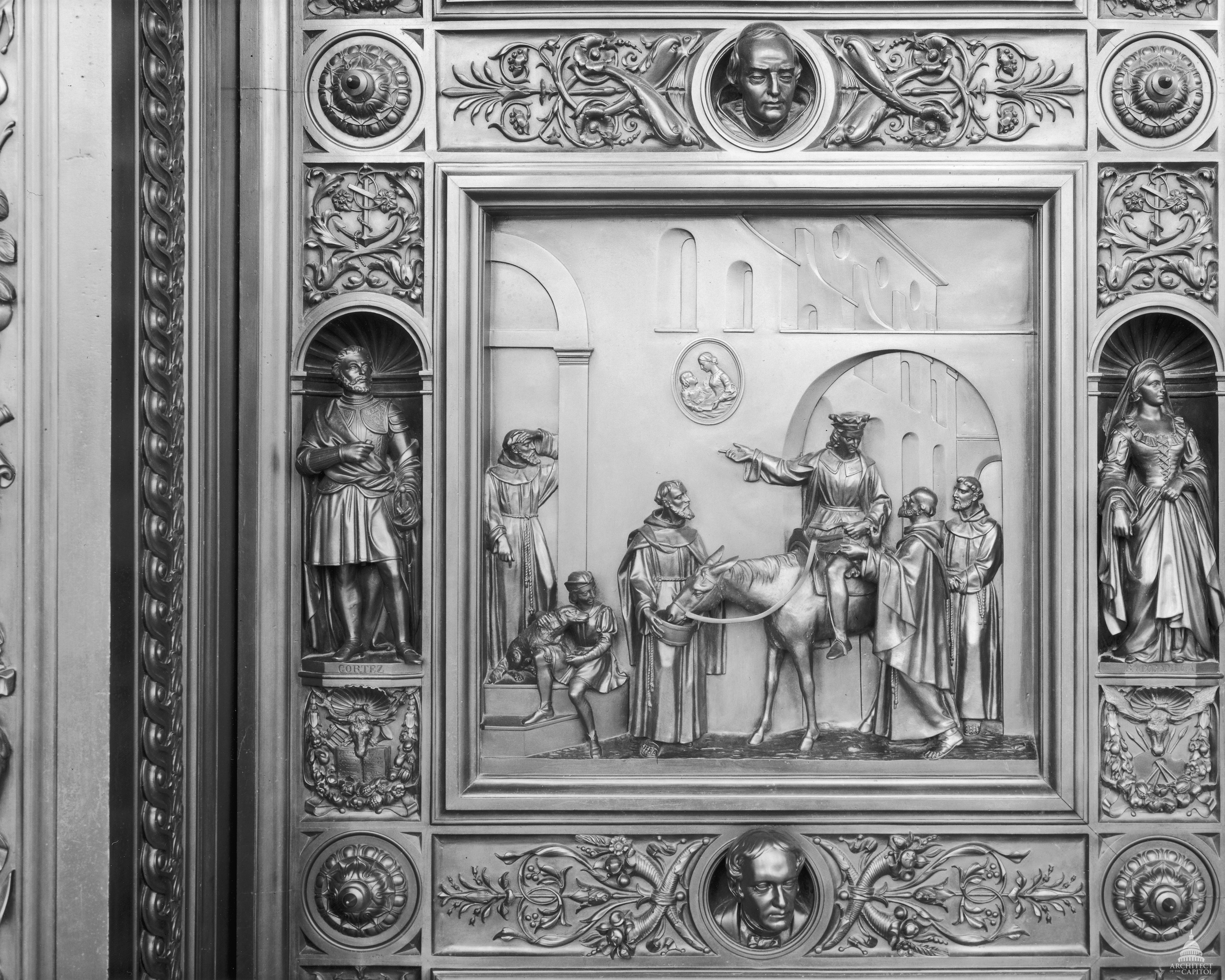 Columbus, mounted on a mule, is prepared to depart from the gate of the convent run by friar Juan Perez, former confessor to Queen Isabella. While sheltering Columbus and his son, Perez was so impressed with Columbus's vision that he wrote to the Queen urging her to reconsider supporting the expedition. Statuettes of Hernán Cortés, the conqueror of Mexico, and the Lady Beatrix de Bobadilla, an attendant of Isabella who befriended Columbus, flank this panel. This official Architect of the Capitol photograph is being made available for educational, scholarly, news or personal purposes (not advertising or any other commercial use). When any of these images is used the photographic credit line should read “Architect of the Capitol.” These images may not be used in any way that would imply endorsement by the Architect of the Capitol or the United States Congress of a product, service or point of view. For more information visit